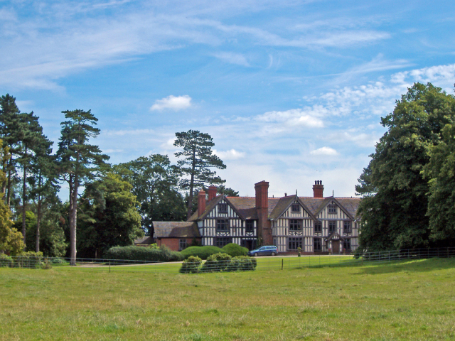 Photograph